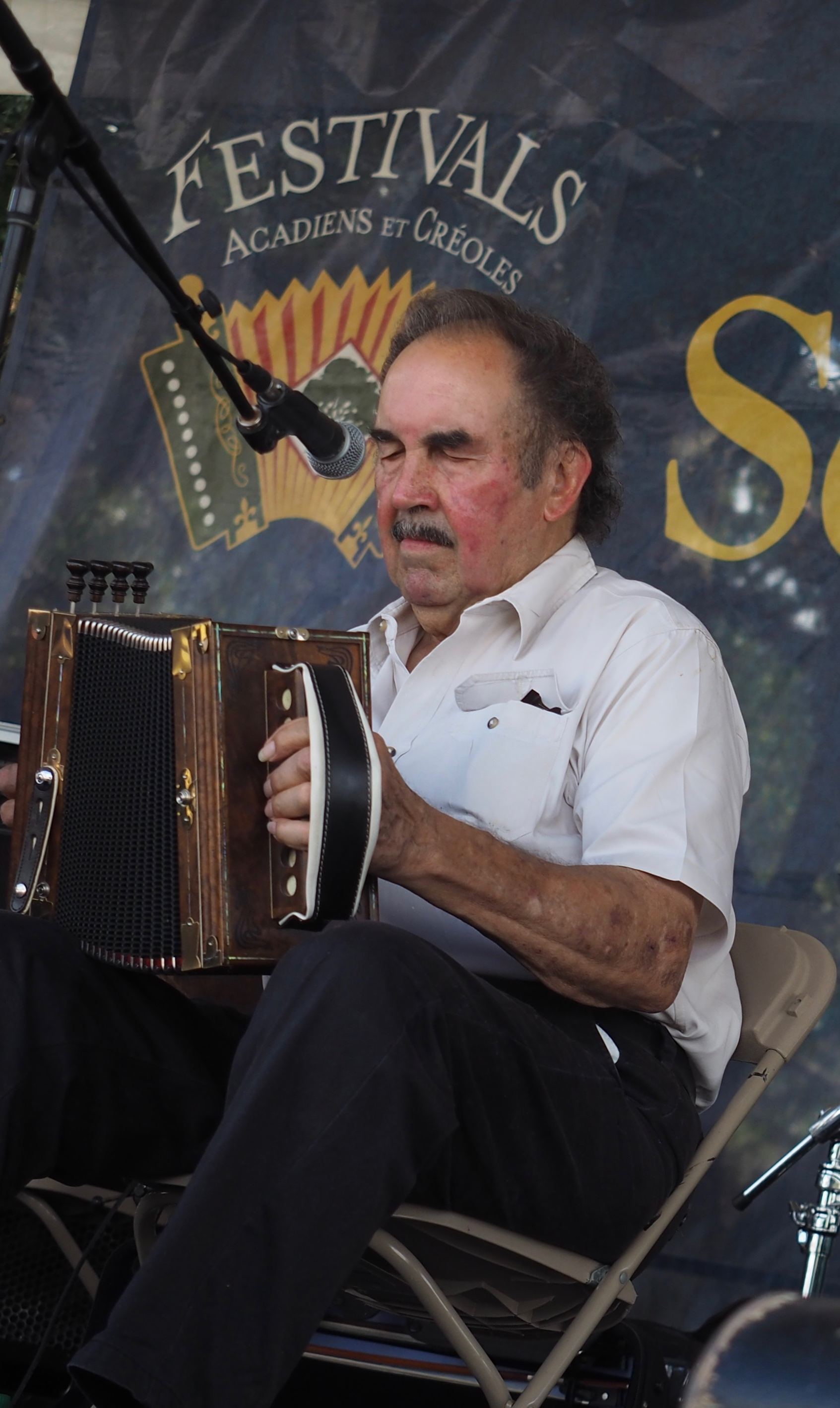 Marc Savoy performing with the Savoy Family Band at Festivals Acadiens et Creoles in Lafayette, LA on October 14, 2018.